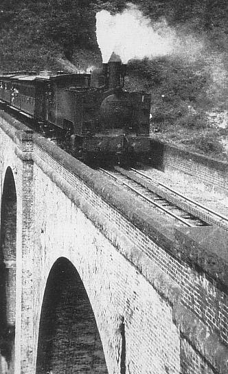 Usui 3rd Railway Bridge before 1945